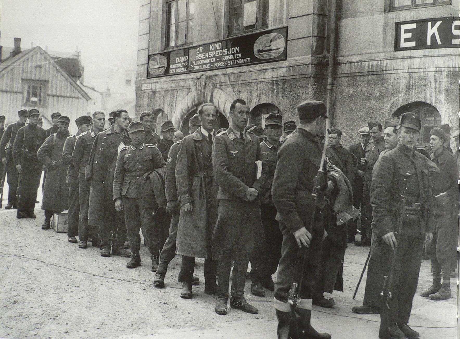 German prisoners of war being marched through the Northern Norwegian town of Harstad by Norwegian soldiers while British troops watch.